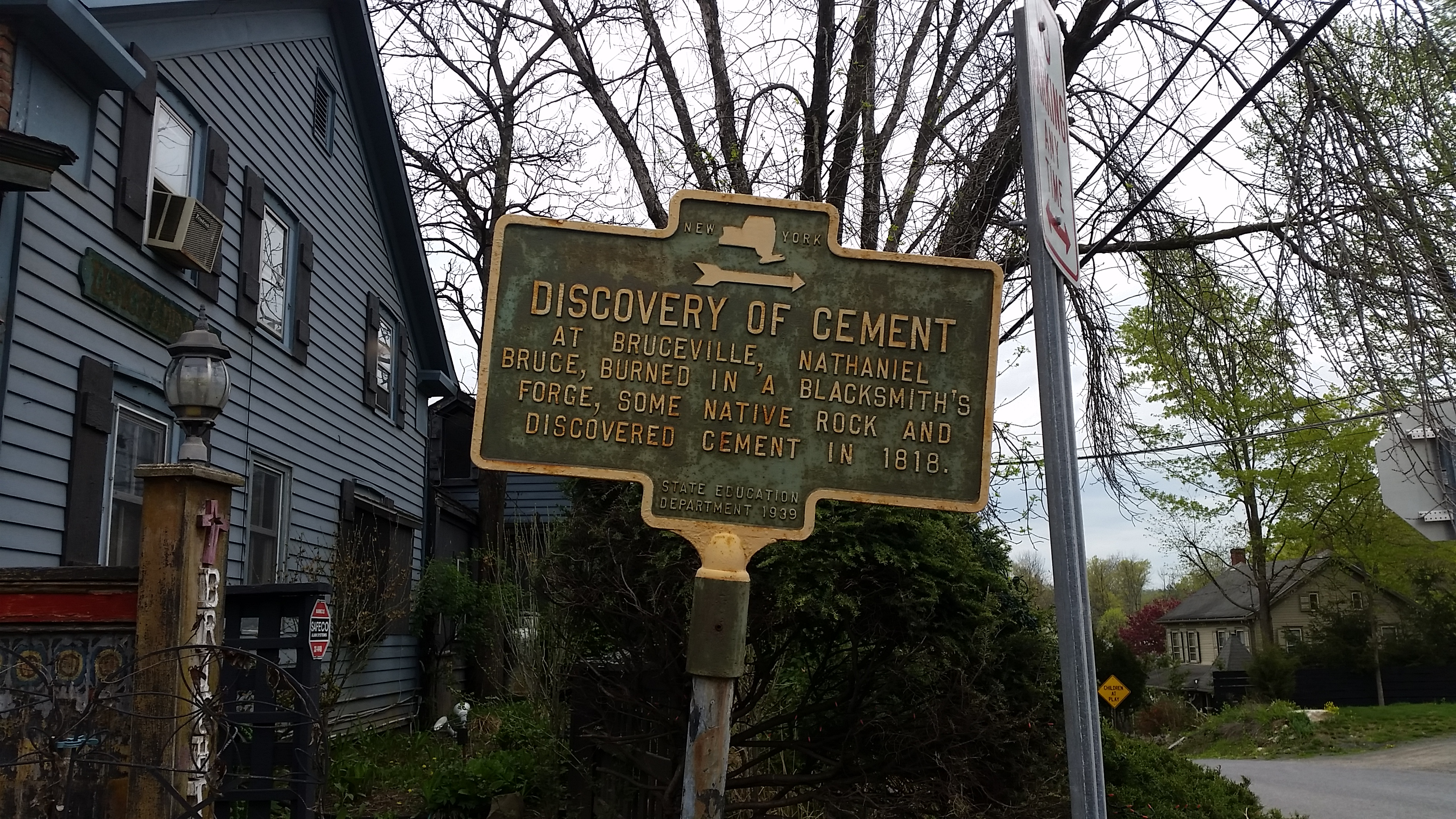 NY State Historical Marker for the discovery of cement in Bruceville